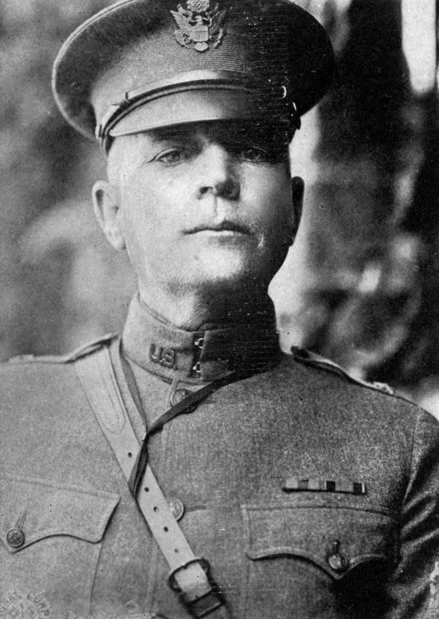 A historical picture of Palmer E. Pierce in 1919, as the commander of the 27th Infantry Division.